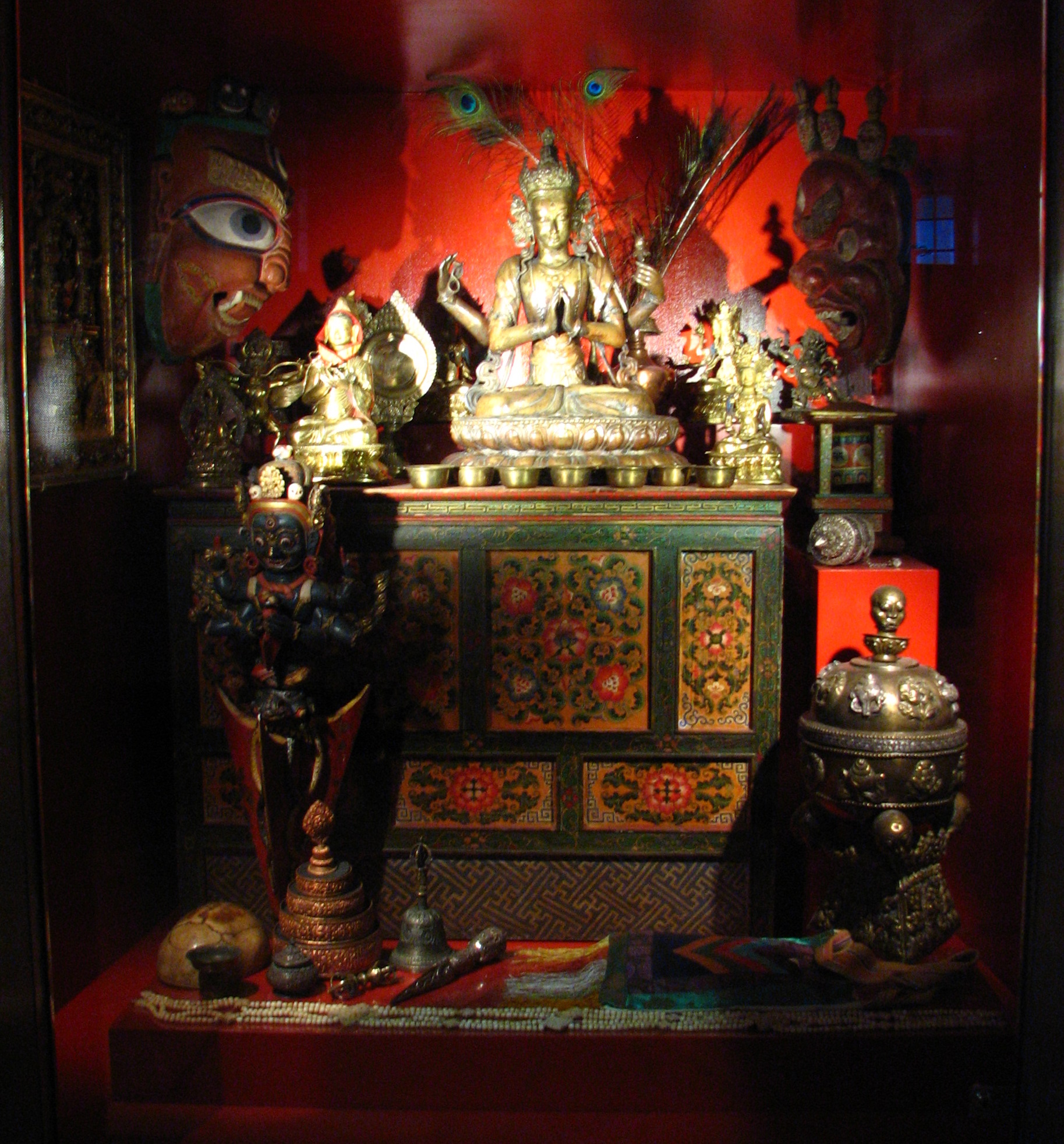 The Tibetan shrine in Horniman Museum.